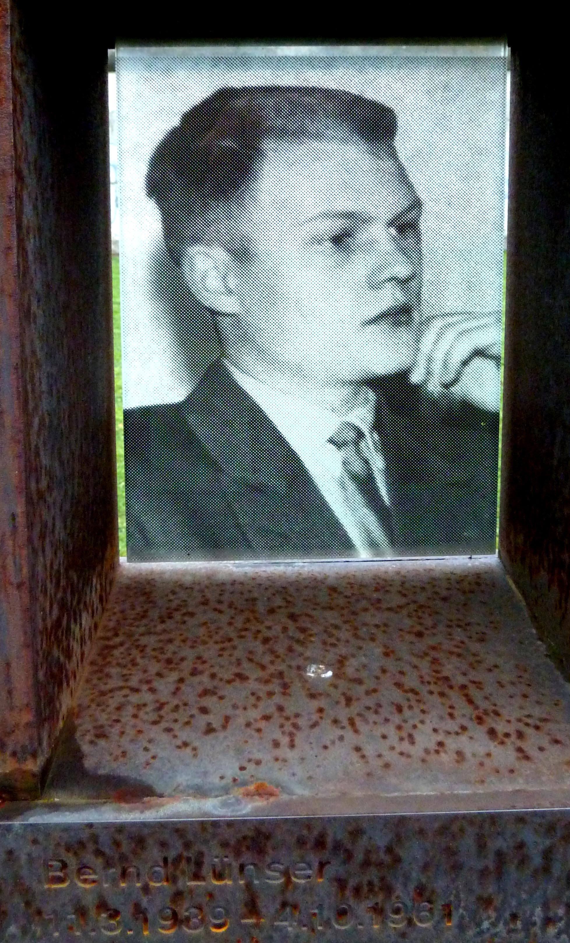 Bernd Lünser at the Wall of Rememberance, Bernauer Straße, Berlin